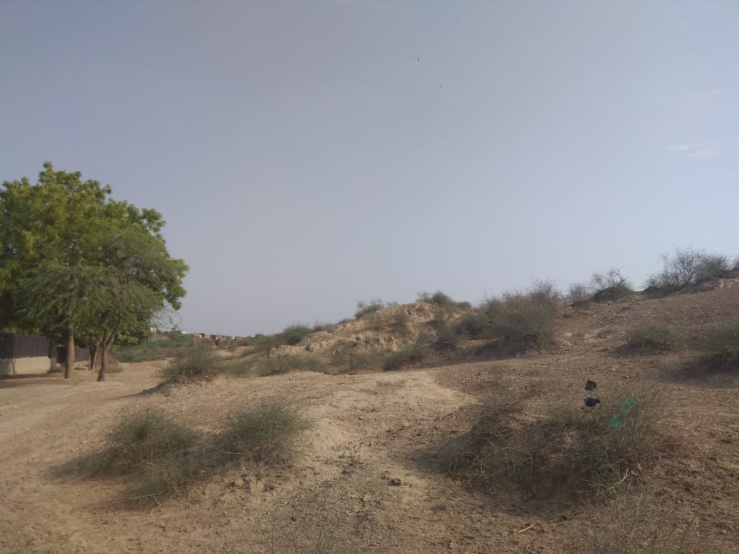 This is another pics of same Rakhigarhi Harappan civilization